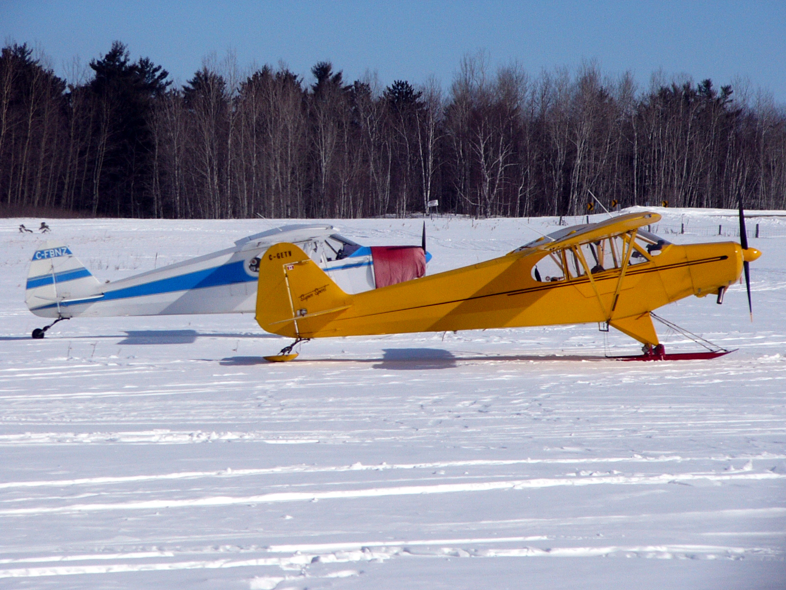 Wag-Aero Super Sport (front) and Piper PA-12 (rear) at the Cobden, Ontario, Canada ski fly-in